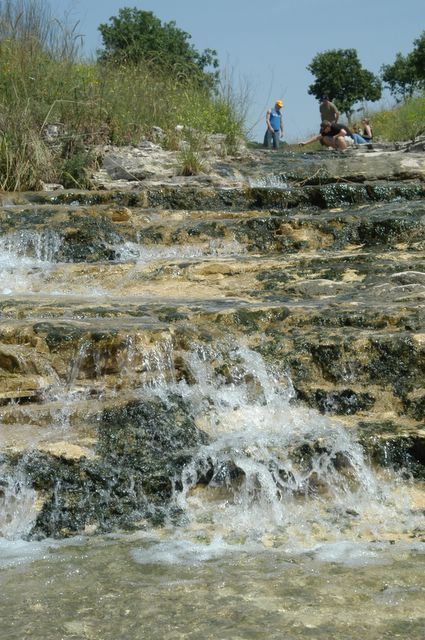 A fountain next to Kibbutz Gal-Ed